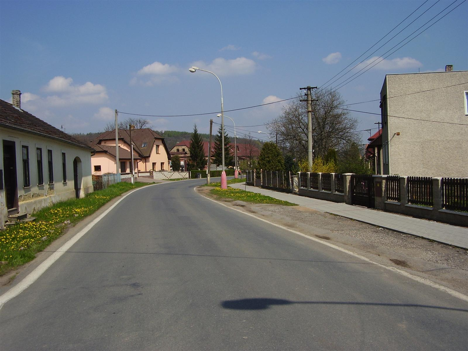 Main street in Lochovice in Central Bohemian Region